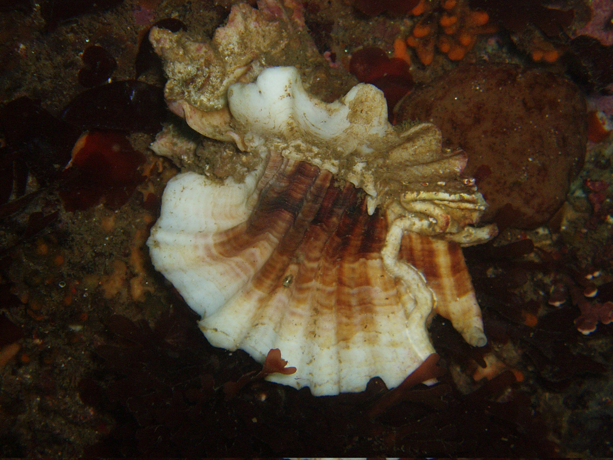 The leafy hornmouth snail (Ceratostoma foliatum). Photo taken in the Hopkins Marine Life Refuge, Pacific Grove, California.